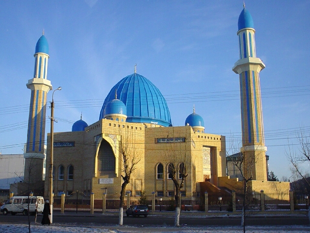 Mosque of Petropavl (